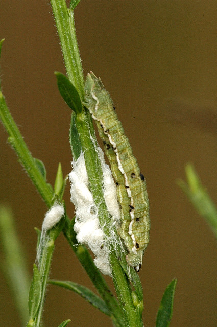 Picture taken in Commanster, Belgian High Ardennes. Species: Chesias legatella dead caterpillar with parasitoid pupae